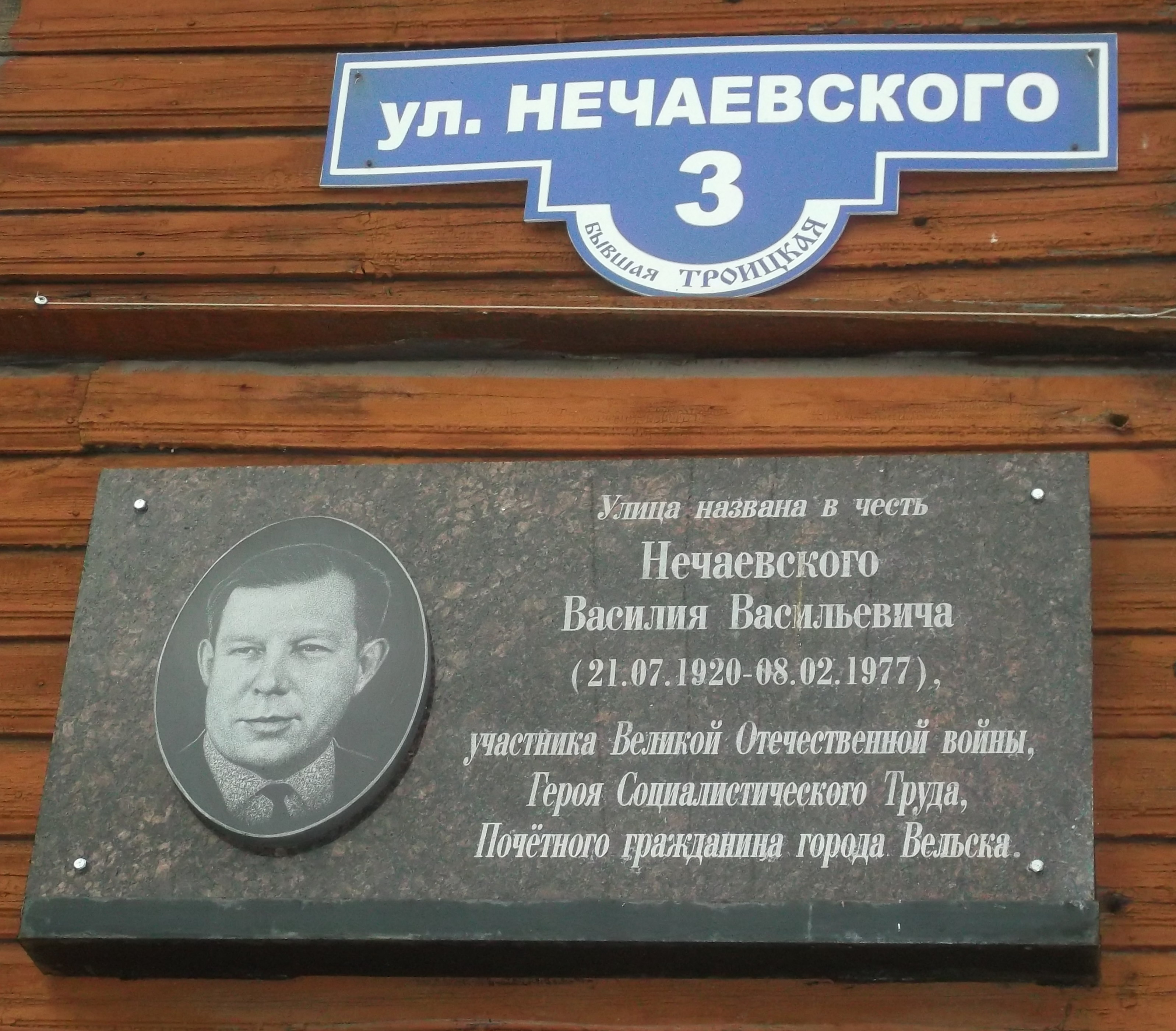 Vasily Nechayevsky commemorative plaque